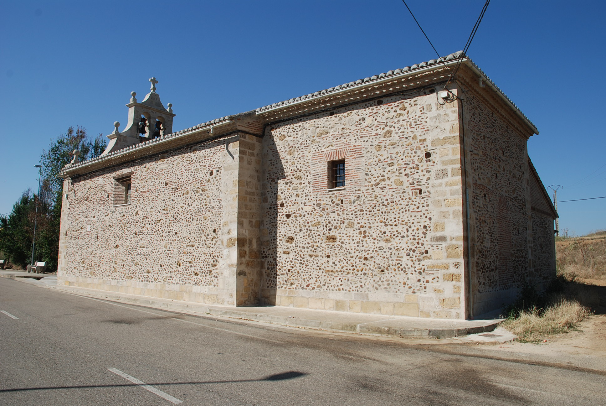 Rehabilitated Hermitage of La Virgen del Camino in Castrillo de Villavega after 2011 works (Palencia, Castile and León).